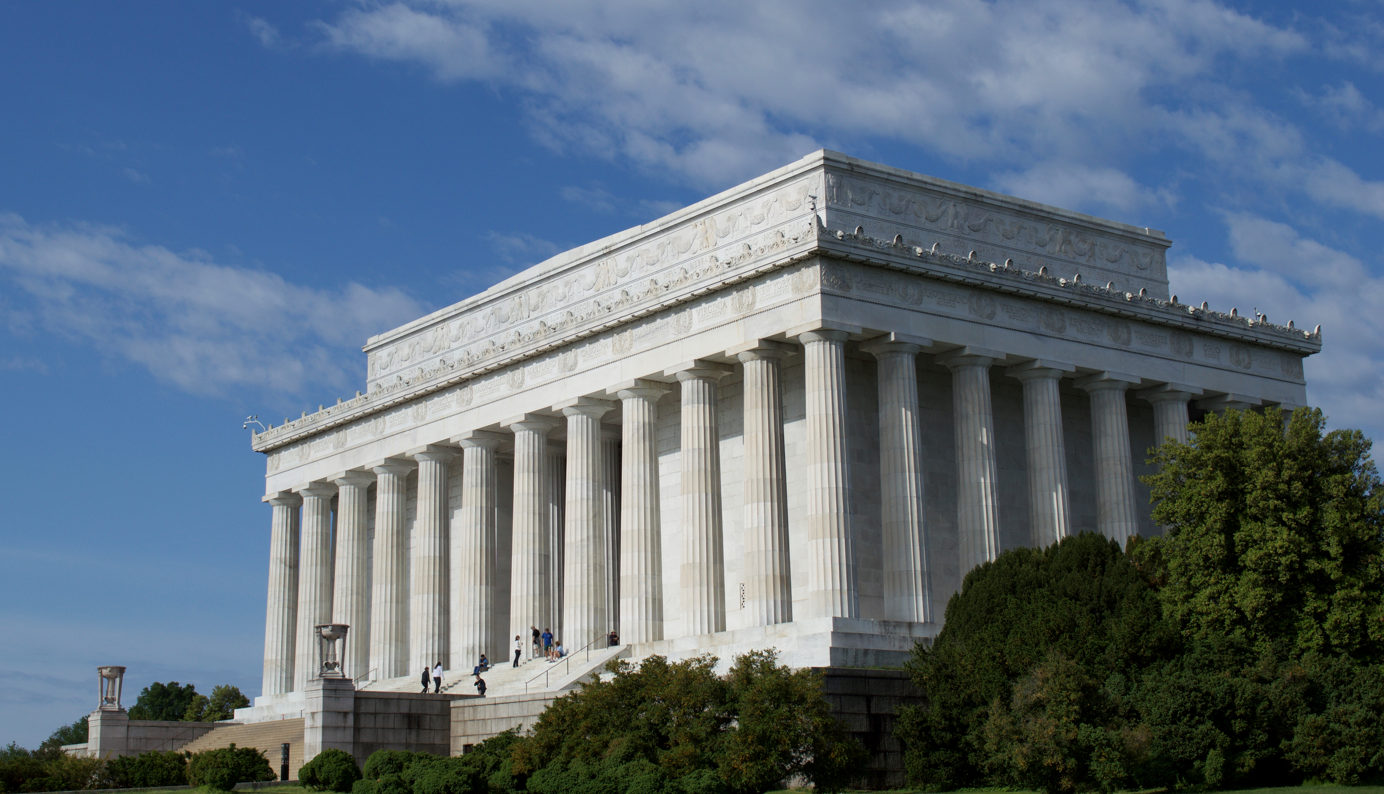 A shot of the Lincoln Memorial during the day in May of 2014.